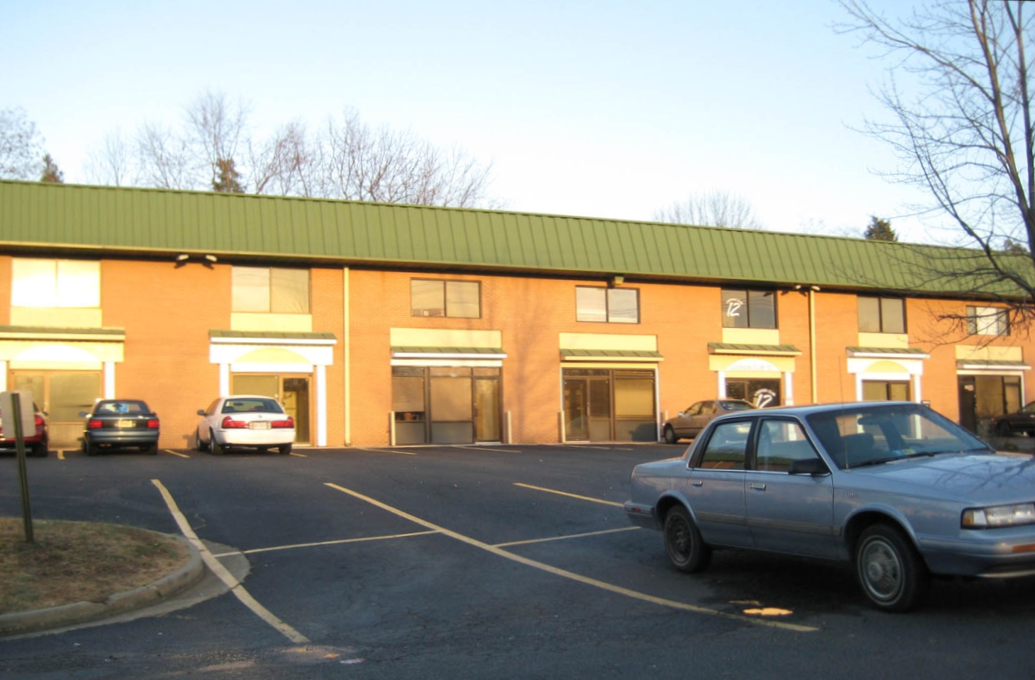 60 Sycolin Rd, Leesburg, VA. Photo by Marielle Kronberg, uploaded on her behalf.